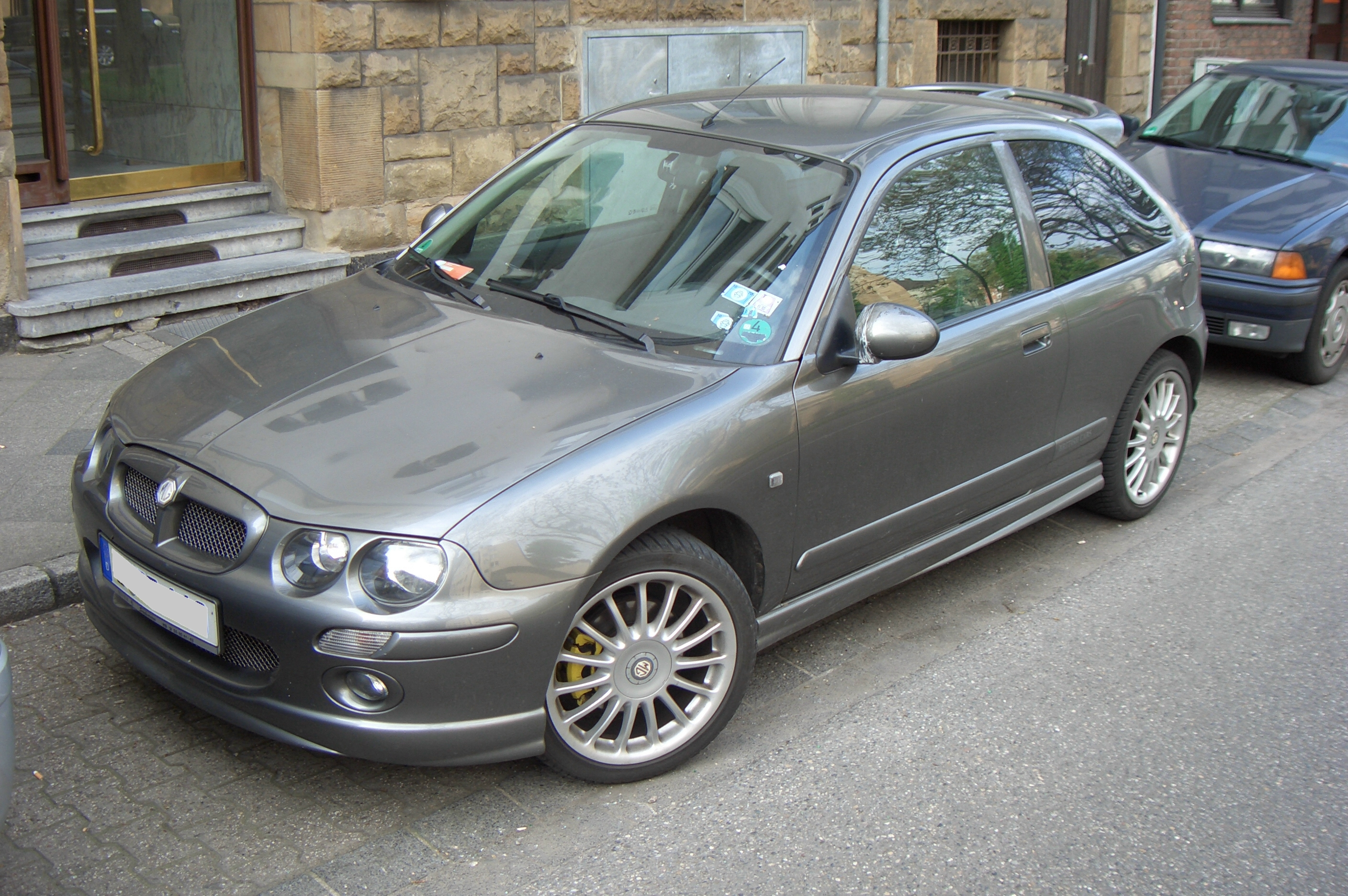 MG ZR 160, pre-Facelift, 2001-2004